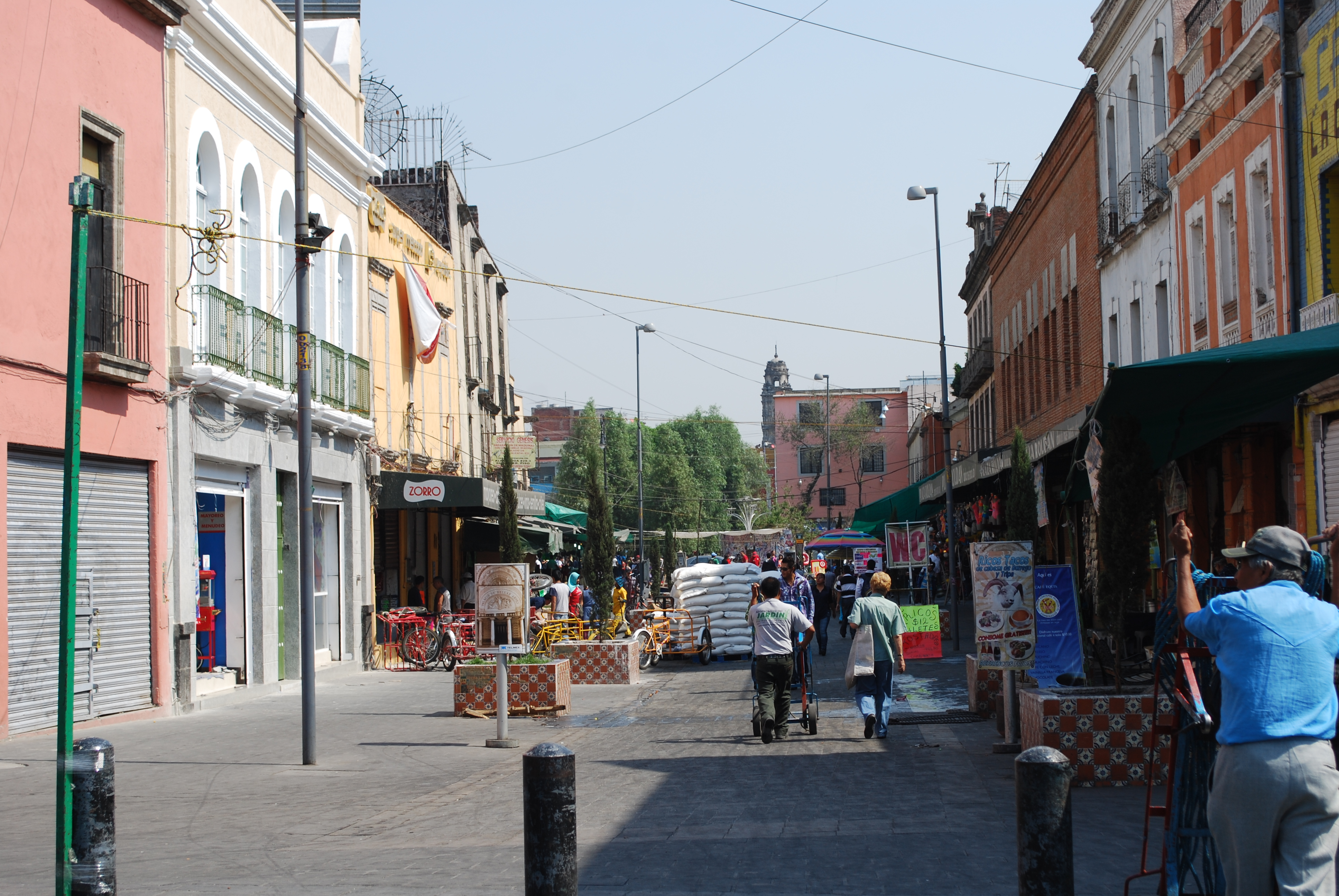 View of Roldán Street in the historic center of Mexico City near the Merced market.